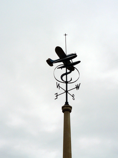 Weymouth - Greenhill Gardens This weather vane based on a prototype Spitfire which broke the world air speed record. More images can be seen here